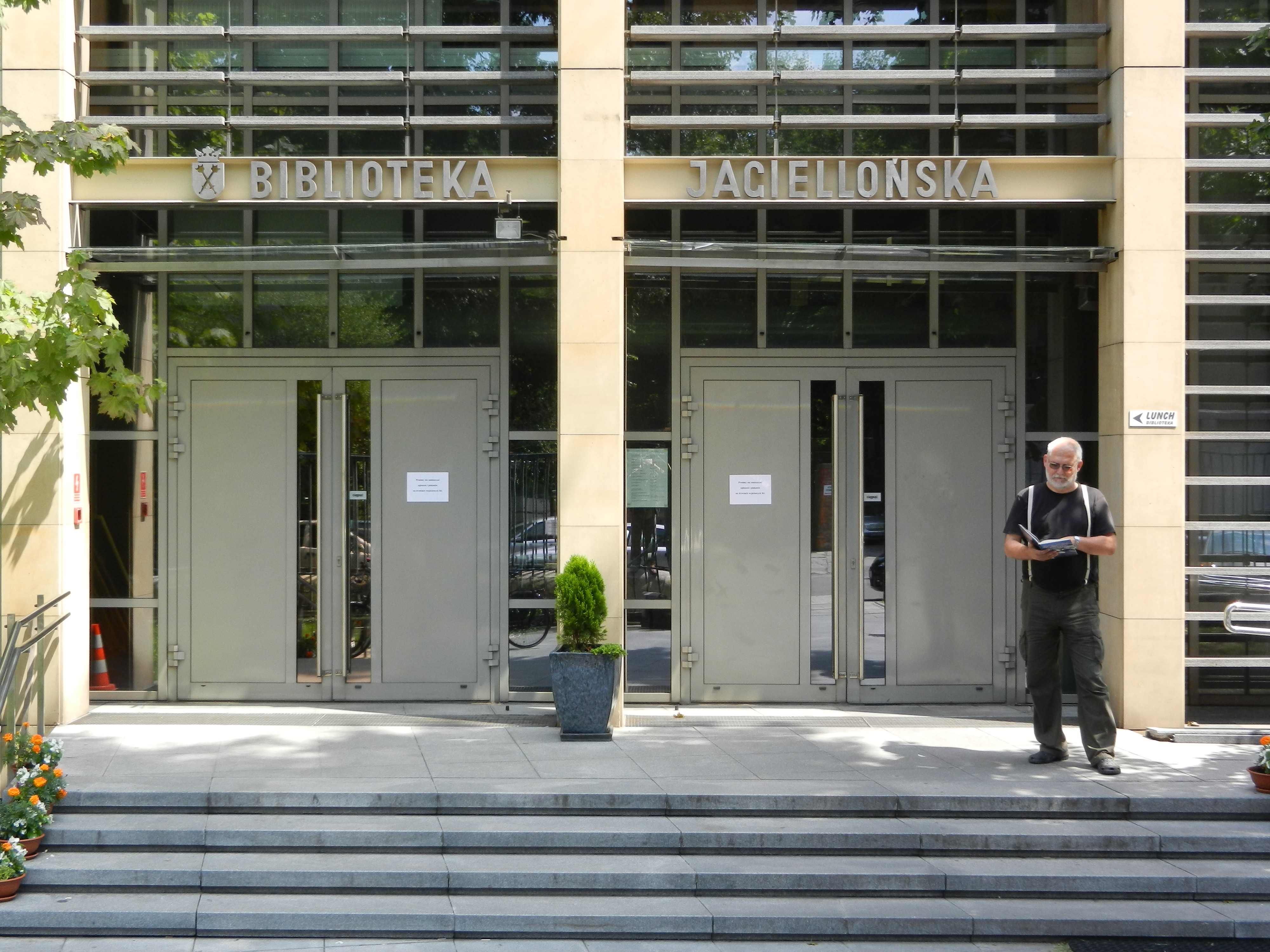 Jagiellonian Library Krakow - New Entrance.